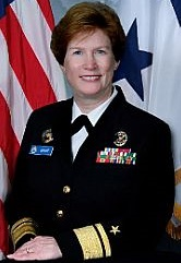 Rear Admiral Elizabeth A. Hight